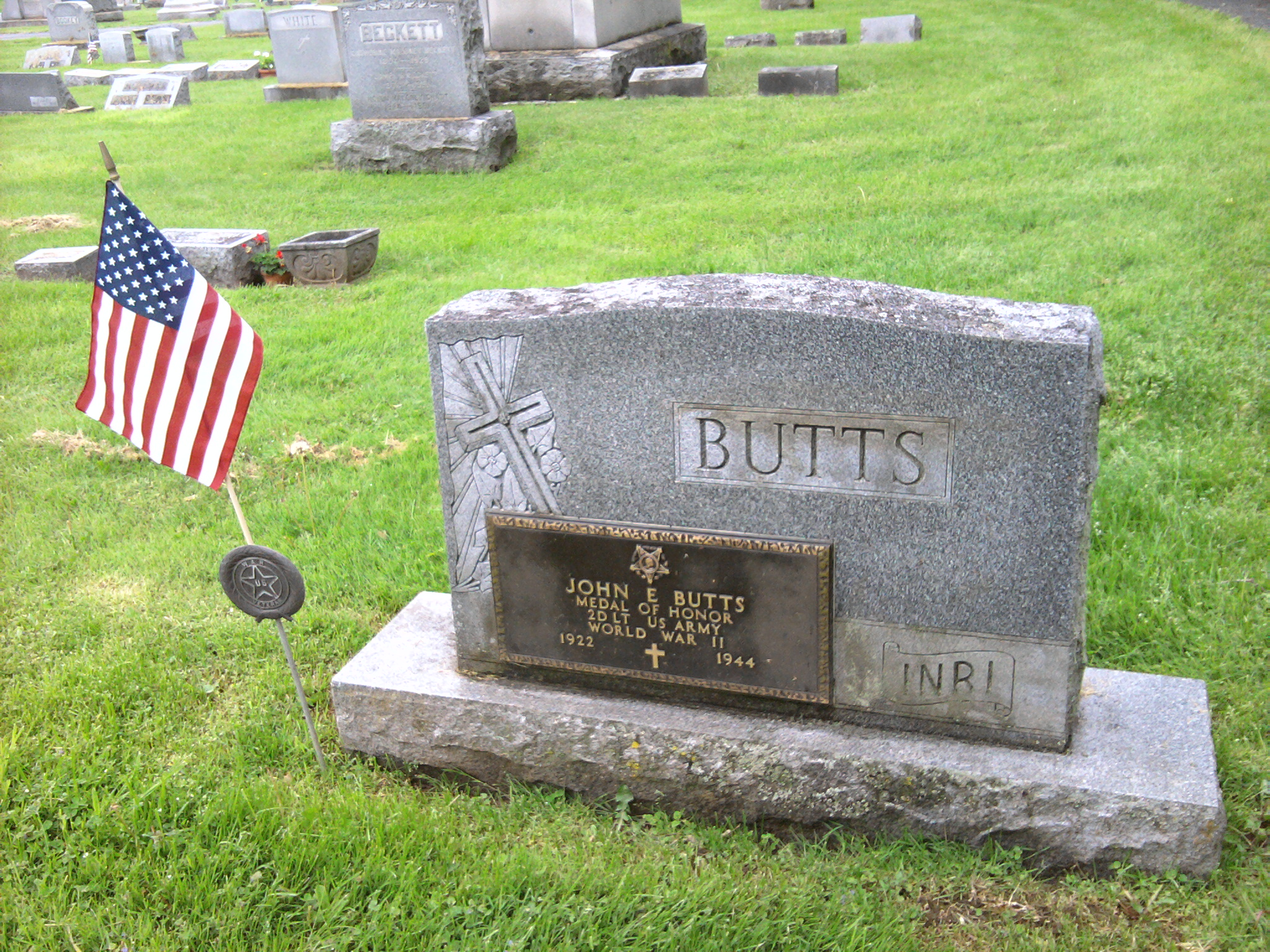 Gravestone of 2nd Lt. John E. Butts at St. Marys Cemetary, Medina, NY.